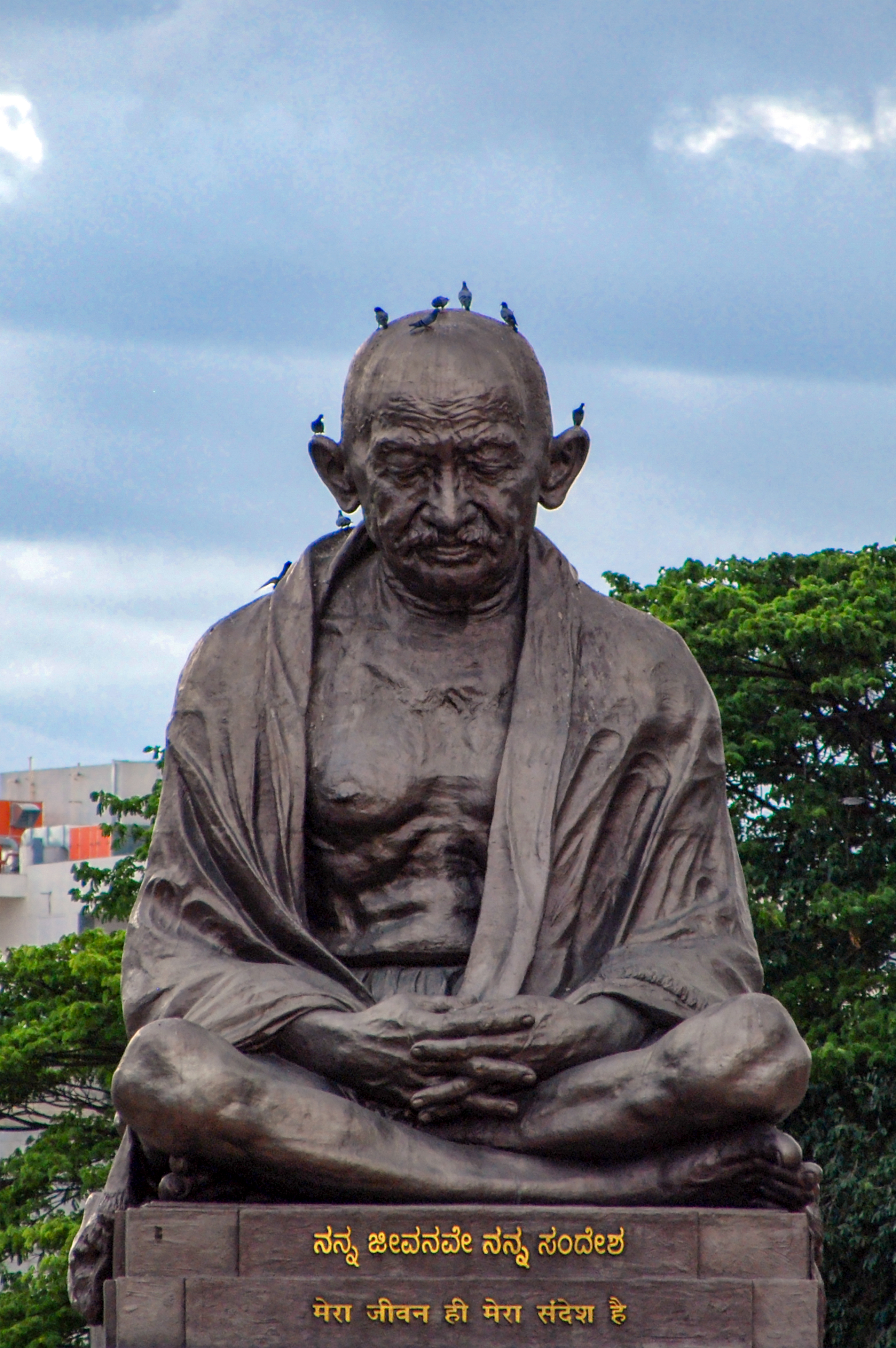 Mahatma Gandhi Statue, Vidhana Soudha